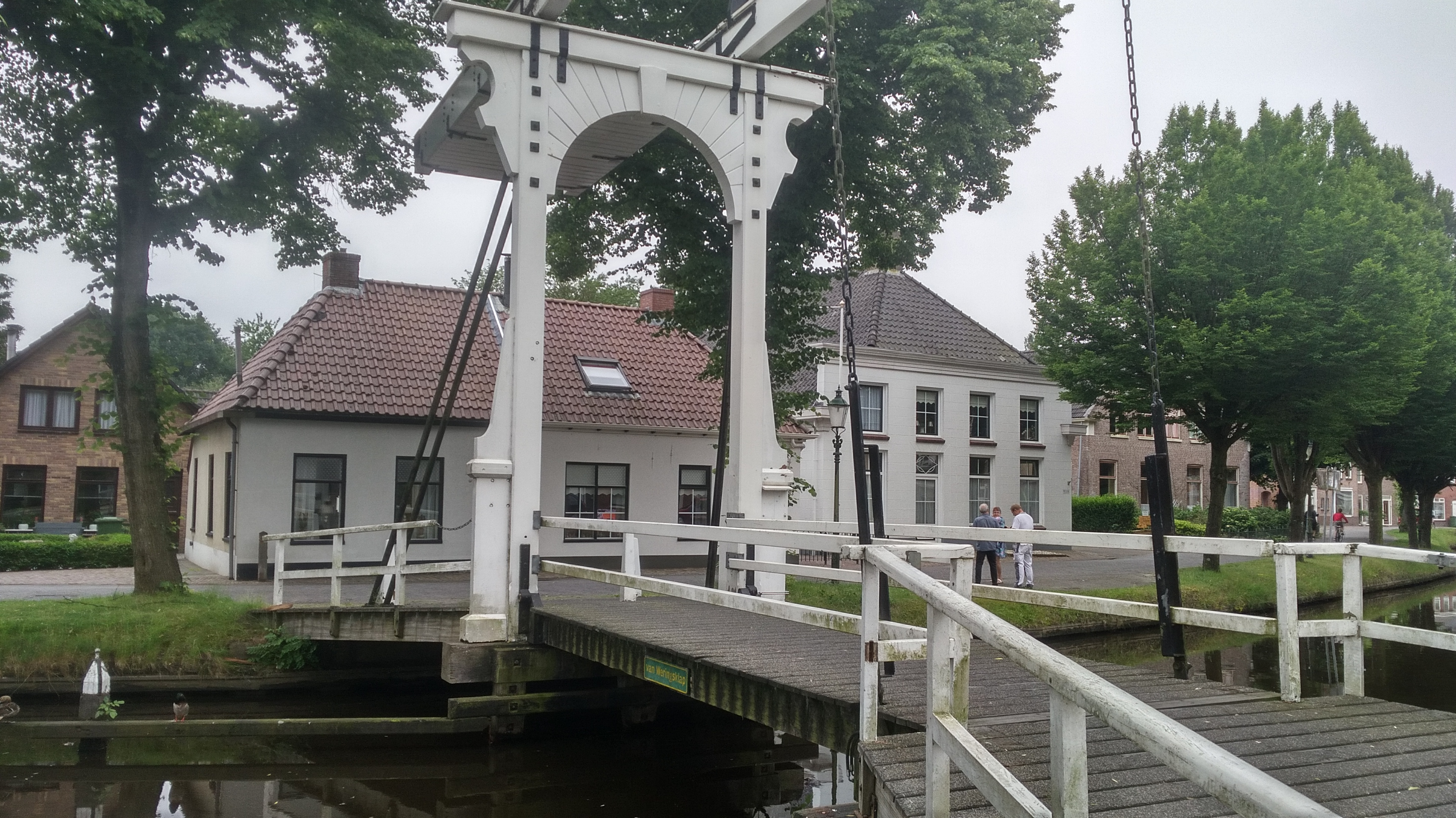 A local bridge in the Groninger village of Oude Pekela.